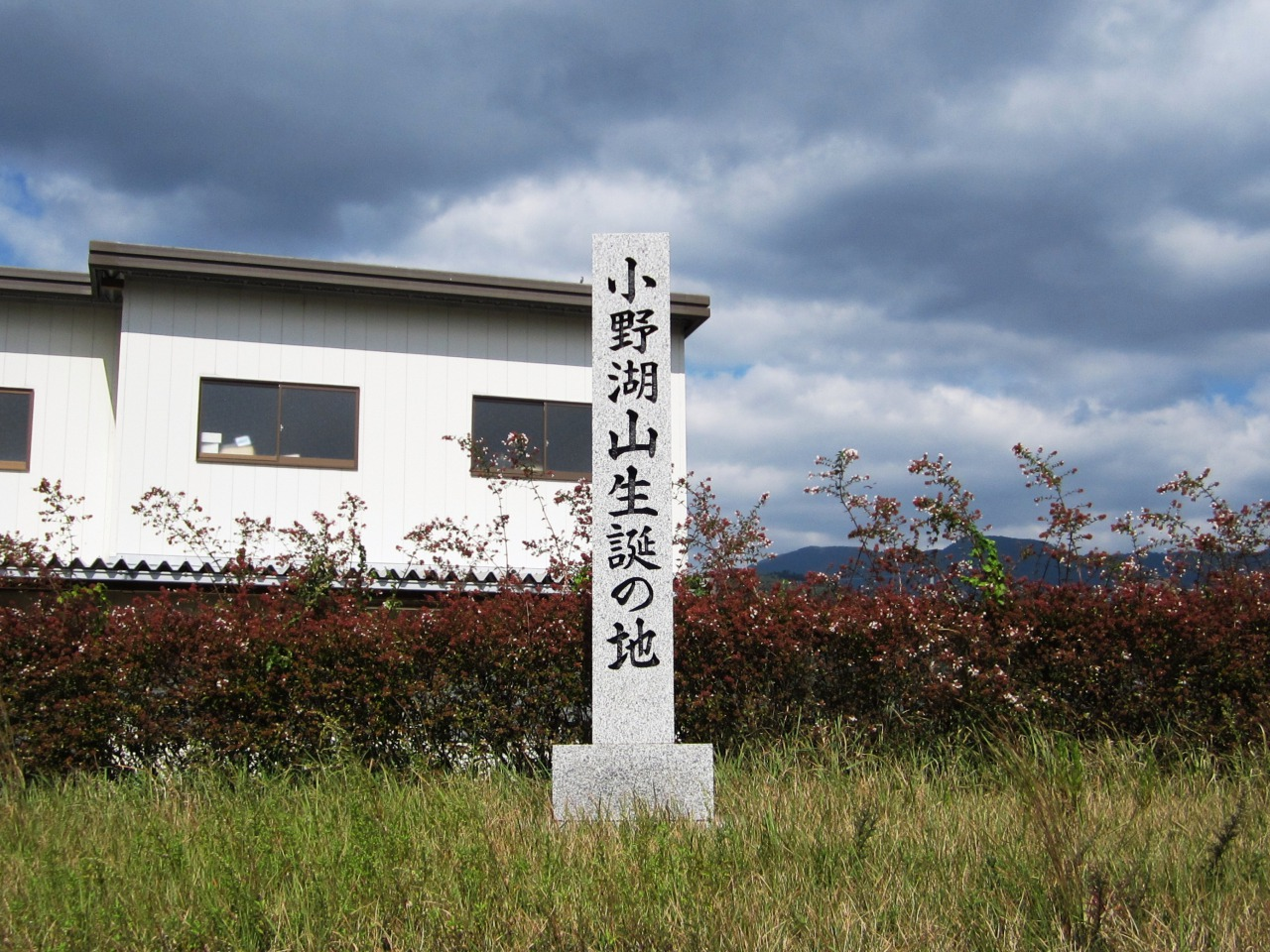 The birthplace of Ono Kozan in Nagahama, Shiga.